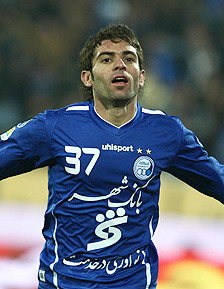 Esteghlal 3 - 0 Persepolis